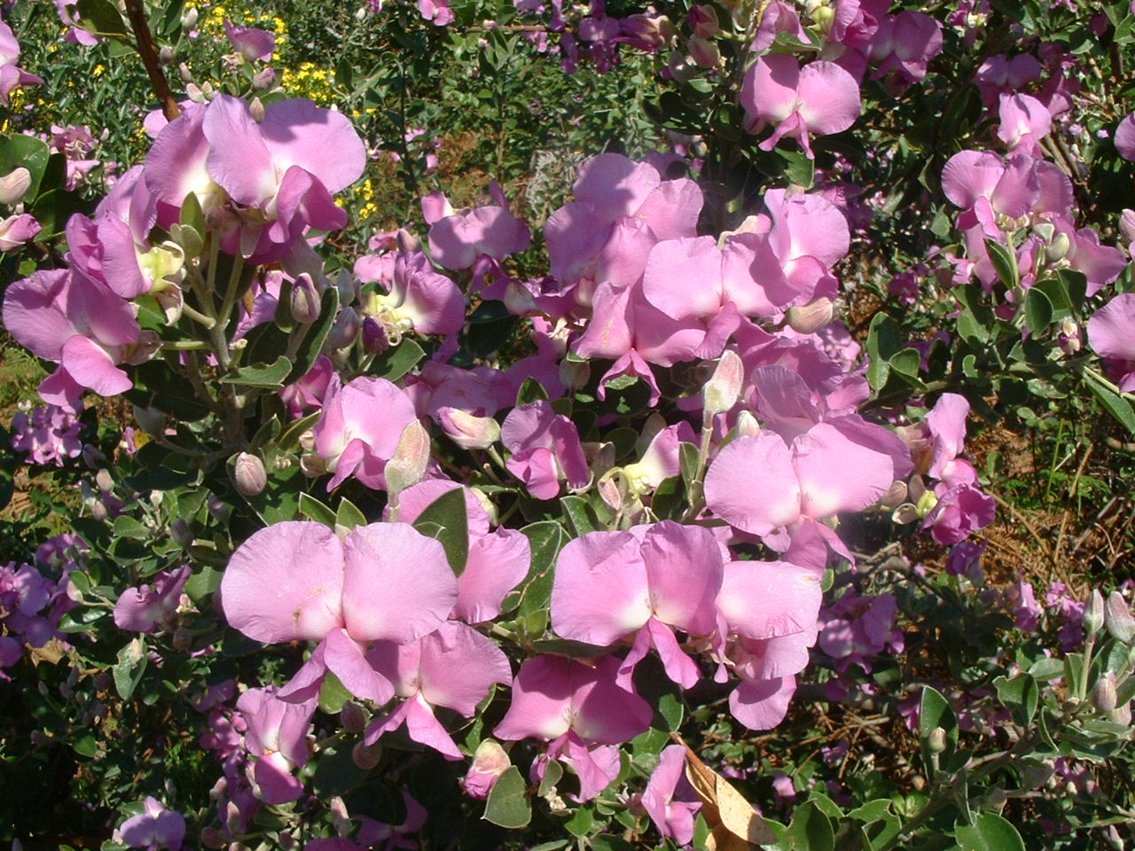 Podalyria calyptrata. The Water Blossom Pea tree. Fynbos at Newlands Forest. Cape Town.